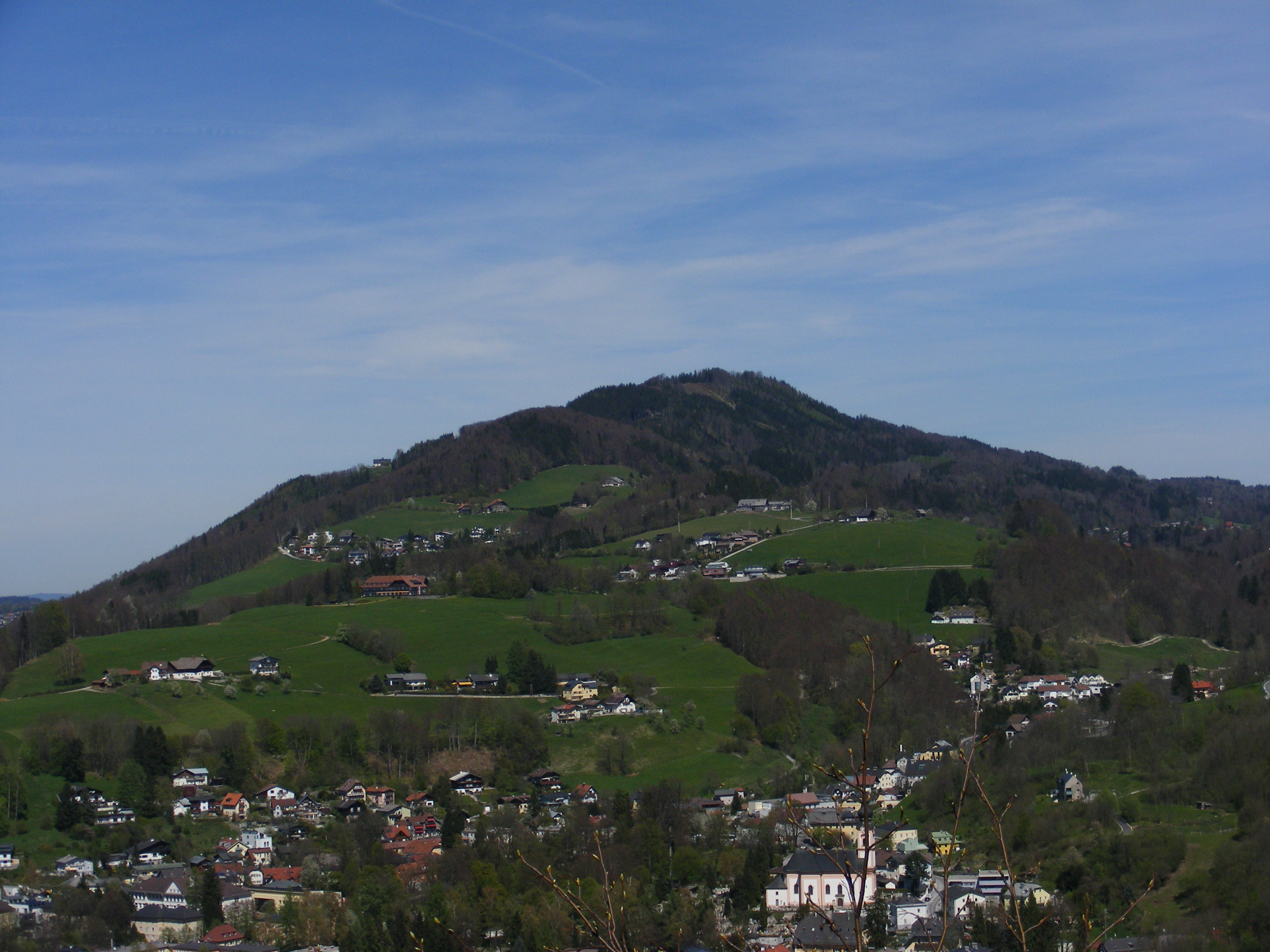 Heuberg mountain in the northeast of the city of Salzburg in Austria.